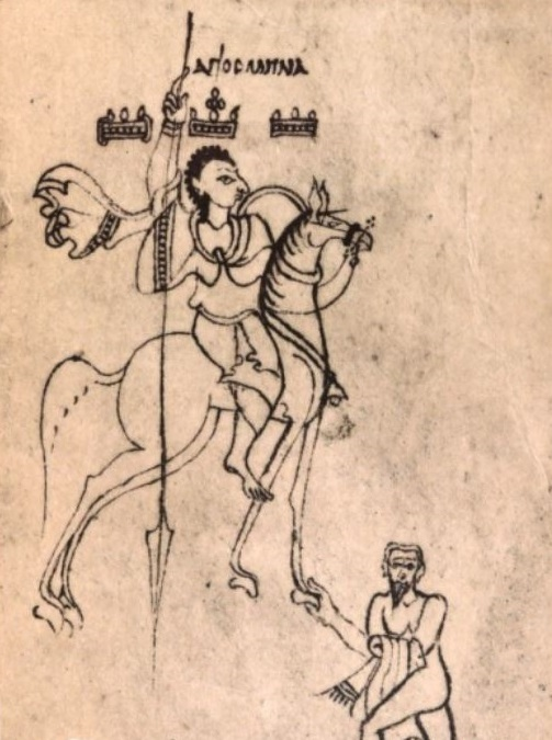 Old Nubian manuscript illustration showing St Menas and the boatman, Edfu. Probably from the 10th or 11th century.